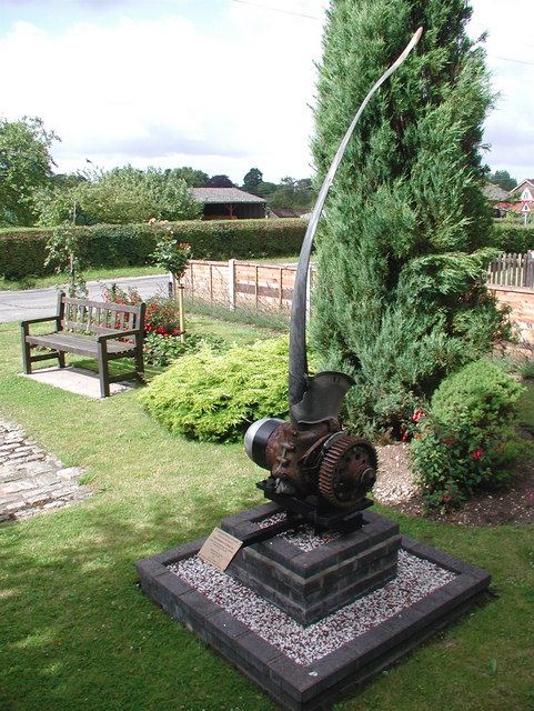 RAF Memorial, Kirmington A salvaged Lancaster propeller blade at the 166 Squadron memorial in Kirmington. The blade was recovered and donated by the Royal Netherlands Air Force Salvage Team in memory of the crew of ND-913 A4-M2 of 115 Squadron, Witchford, who gave their lives on 21st July 1944.